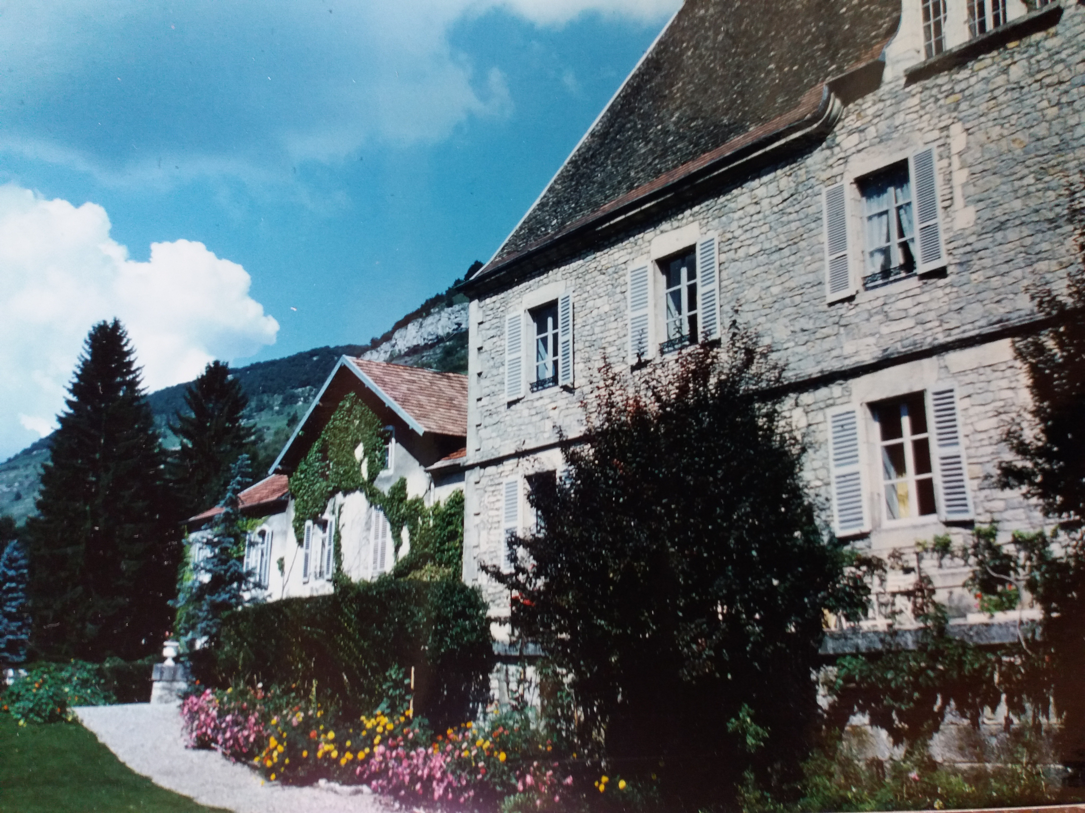 maison et parc